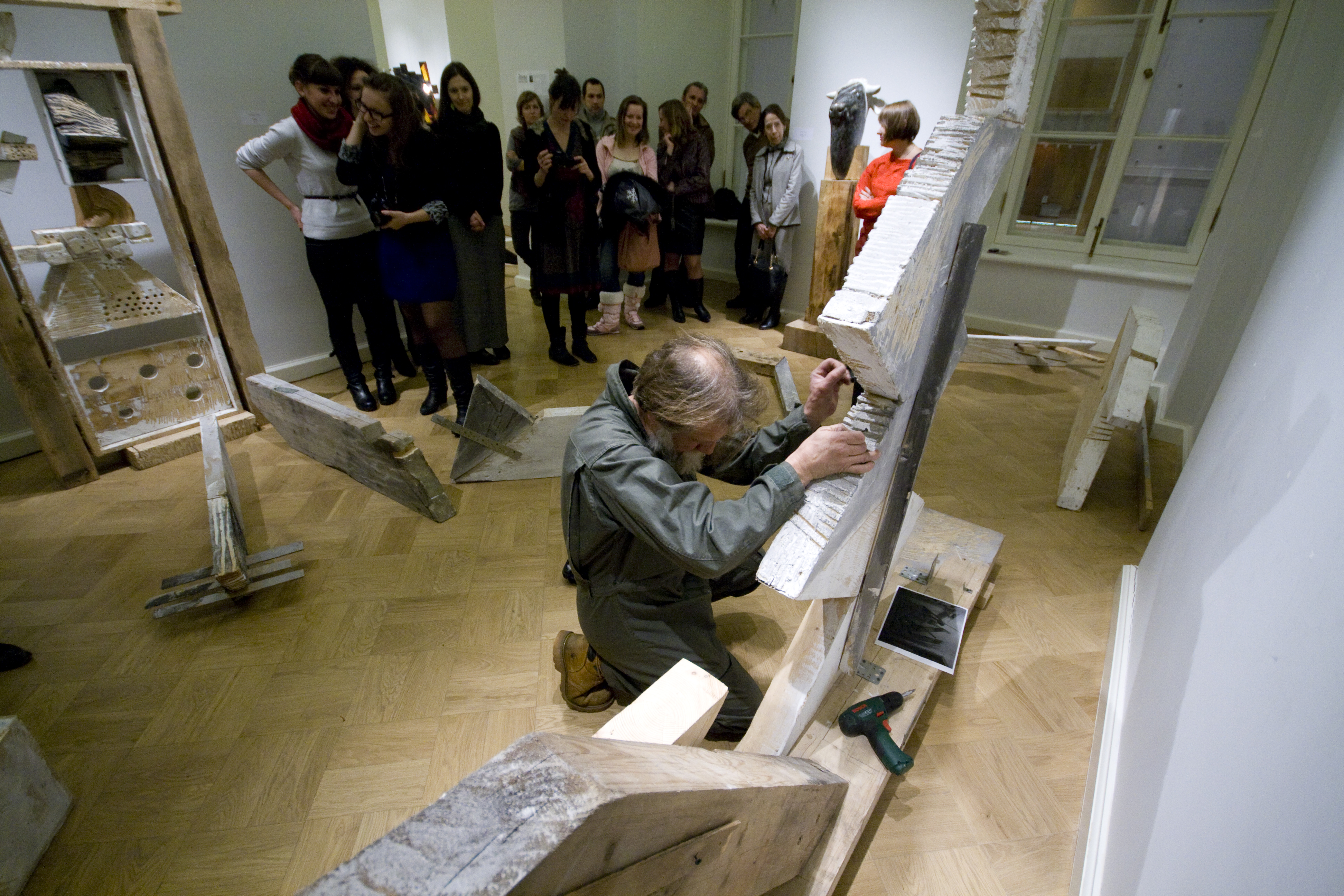 Александр Позин. Проект "Дрова и изящные искусства"